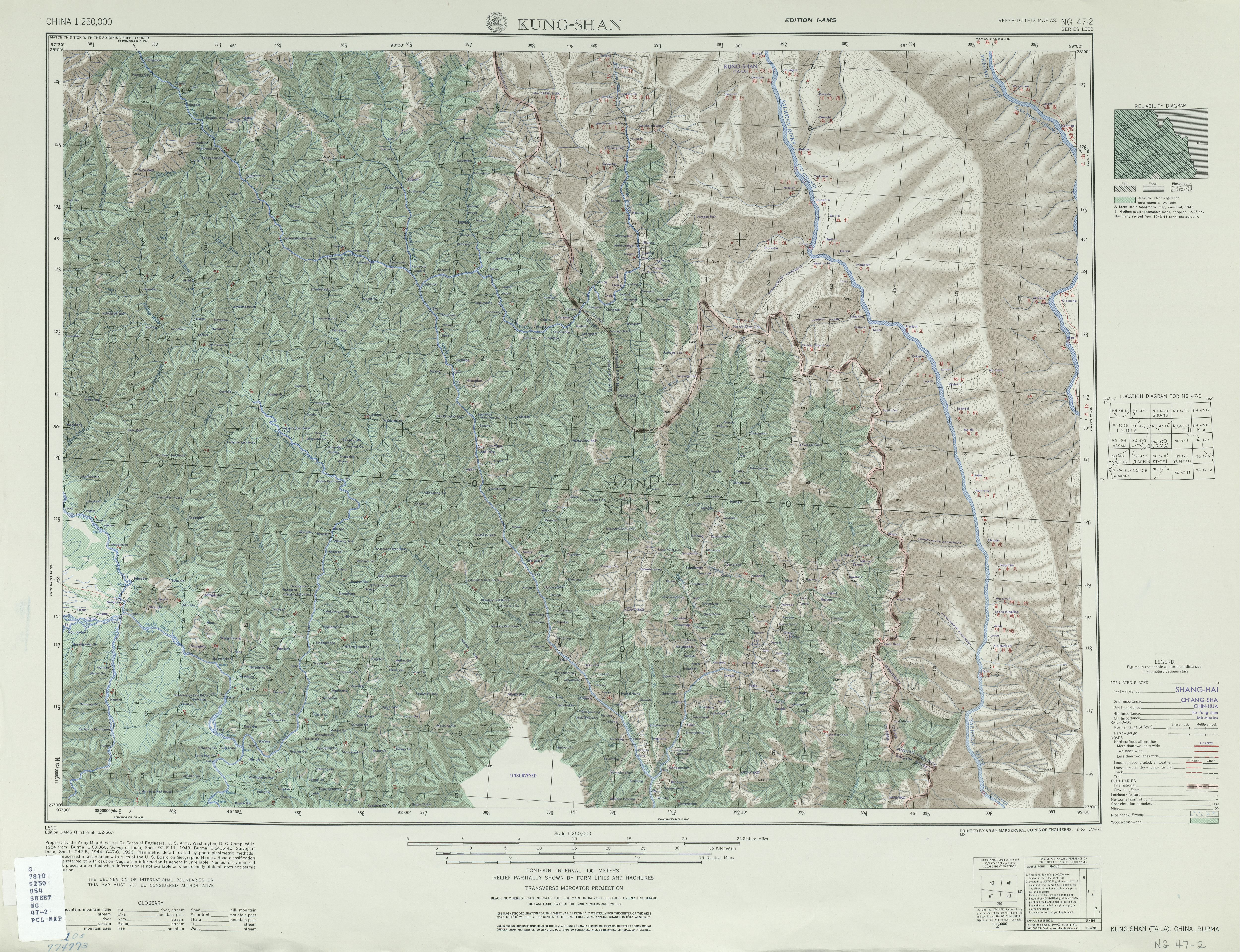 Map of Gongshan (Kung-shan, Ta-la) area, Yunnan